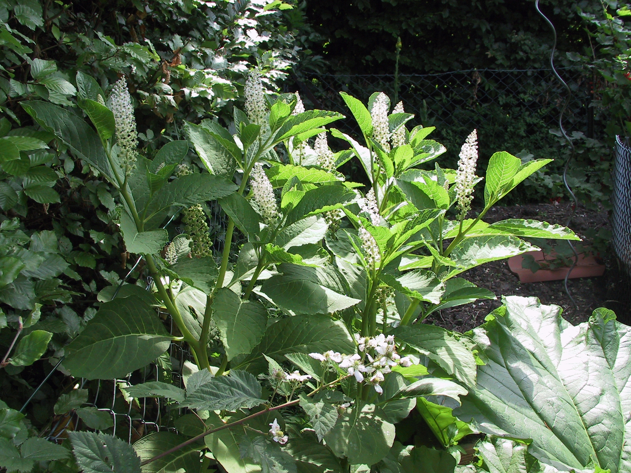 Description: Phytolacca esculenta, Salzhemmendorf (Germany) Source: self made Date: 20062406 Author = --Ruestz 17:59, 2 July 2006 (UTC)